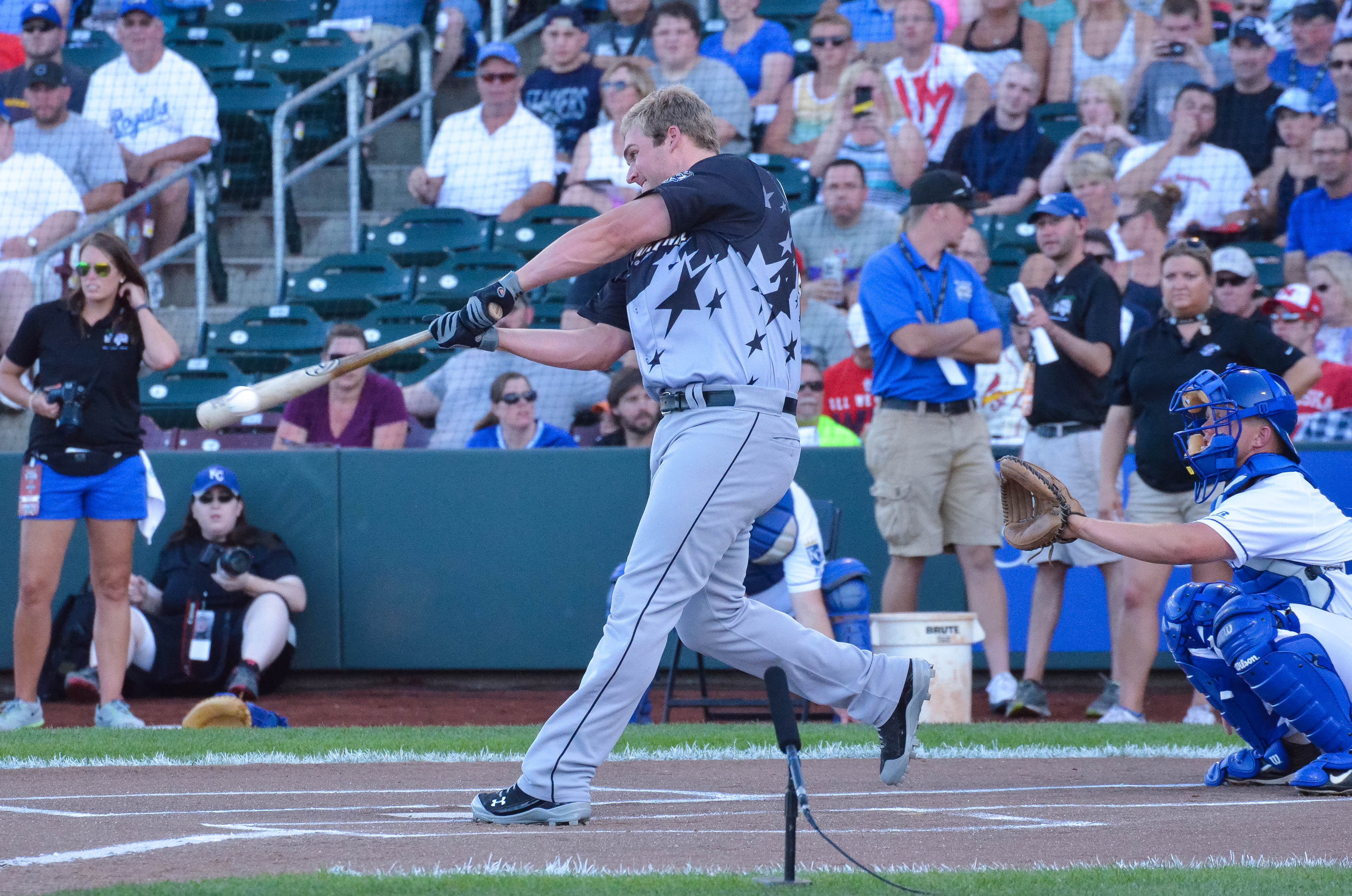 Matt Davidson hitting in the 2015 Triple-A Home Run Derby in Omaha